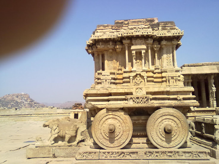 Stone Chariot- Hampi